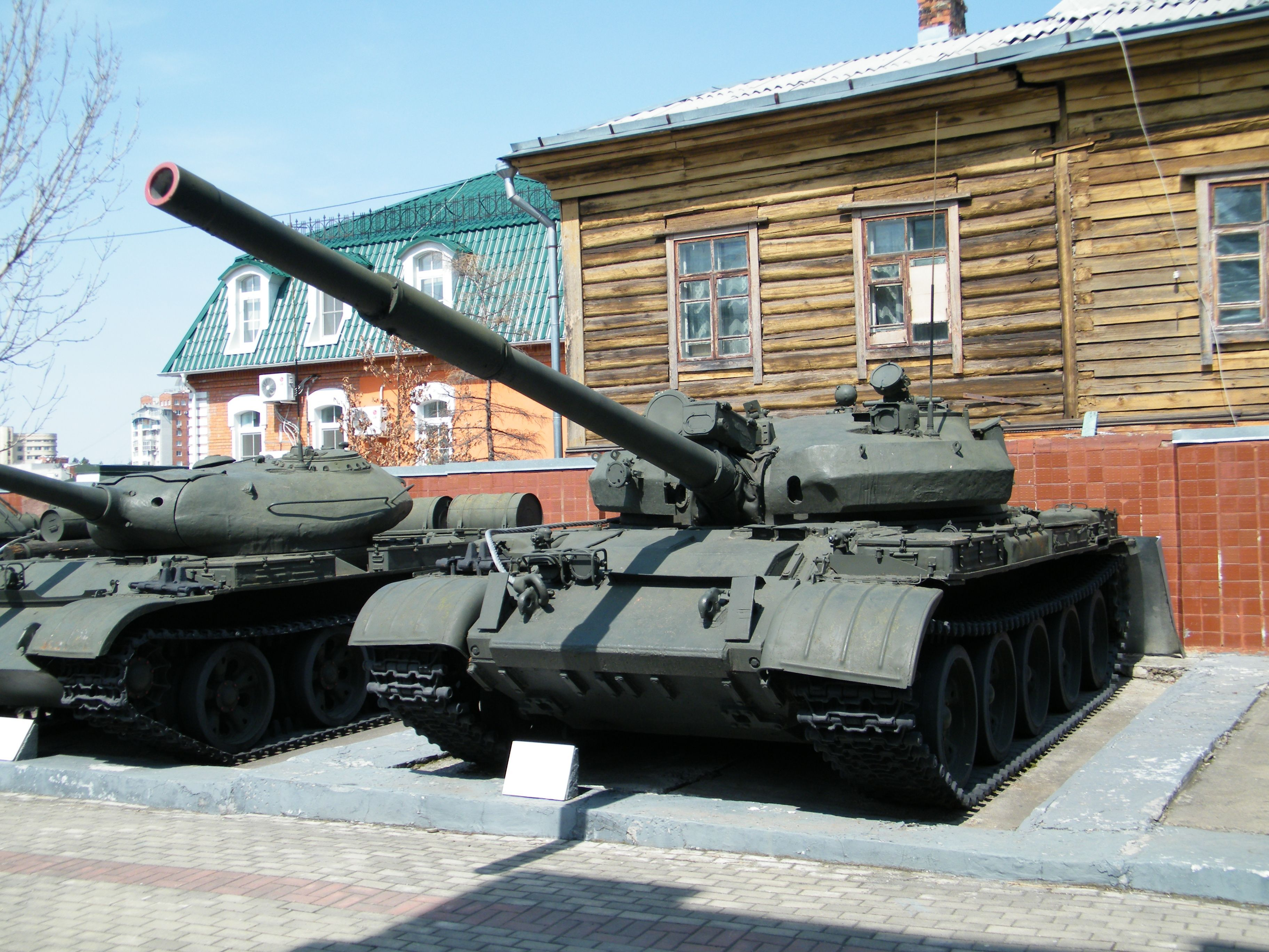 T-62M in Khabarovsk. On the left edge of the photo is T-54.